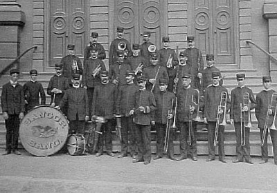 The Bangor Band of Bangor, Maine, taken on Memorial Day 1898.